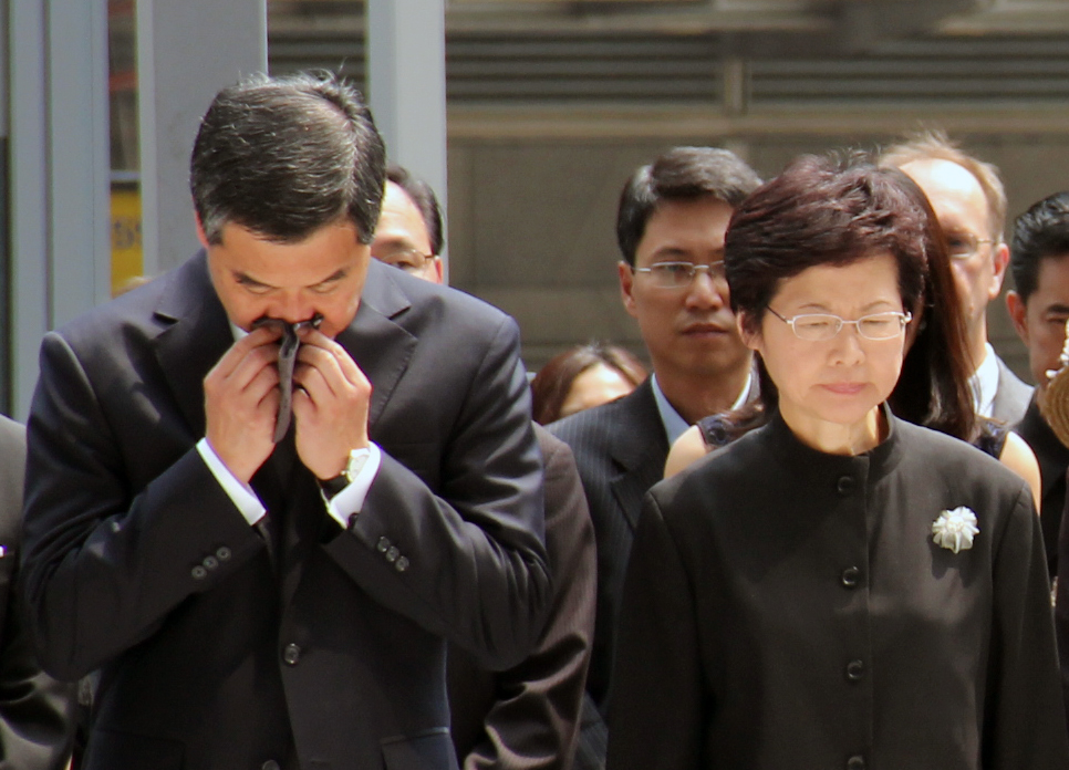 Hong Kong Chief Executive Leung Chun-ying (left) and Chief Secretary for Administration Carrie Lam (right) mourn the victims of the 2012 Lamma Island ferry collision.